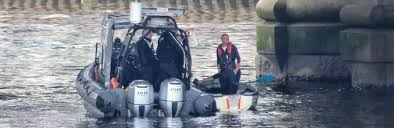 Officers work with Police Scotland on missing persons searches on the River Clyde